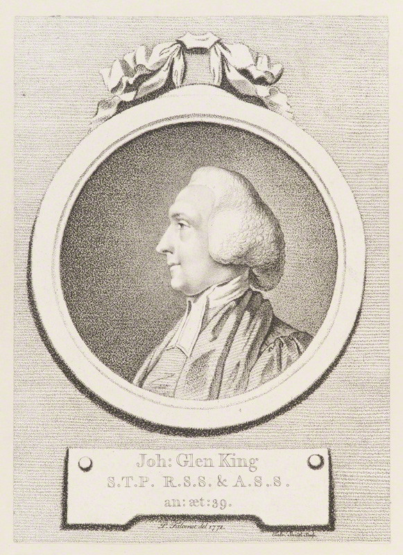 Portrait of John Glen King (1732–1787), English cleric and antiquarian.